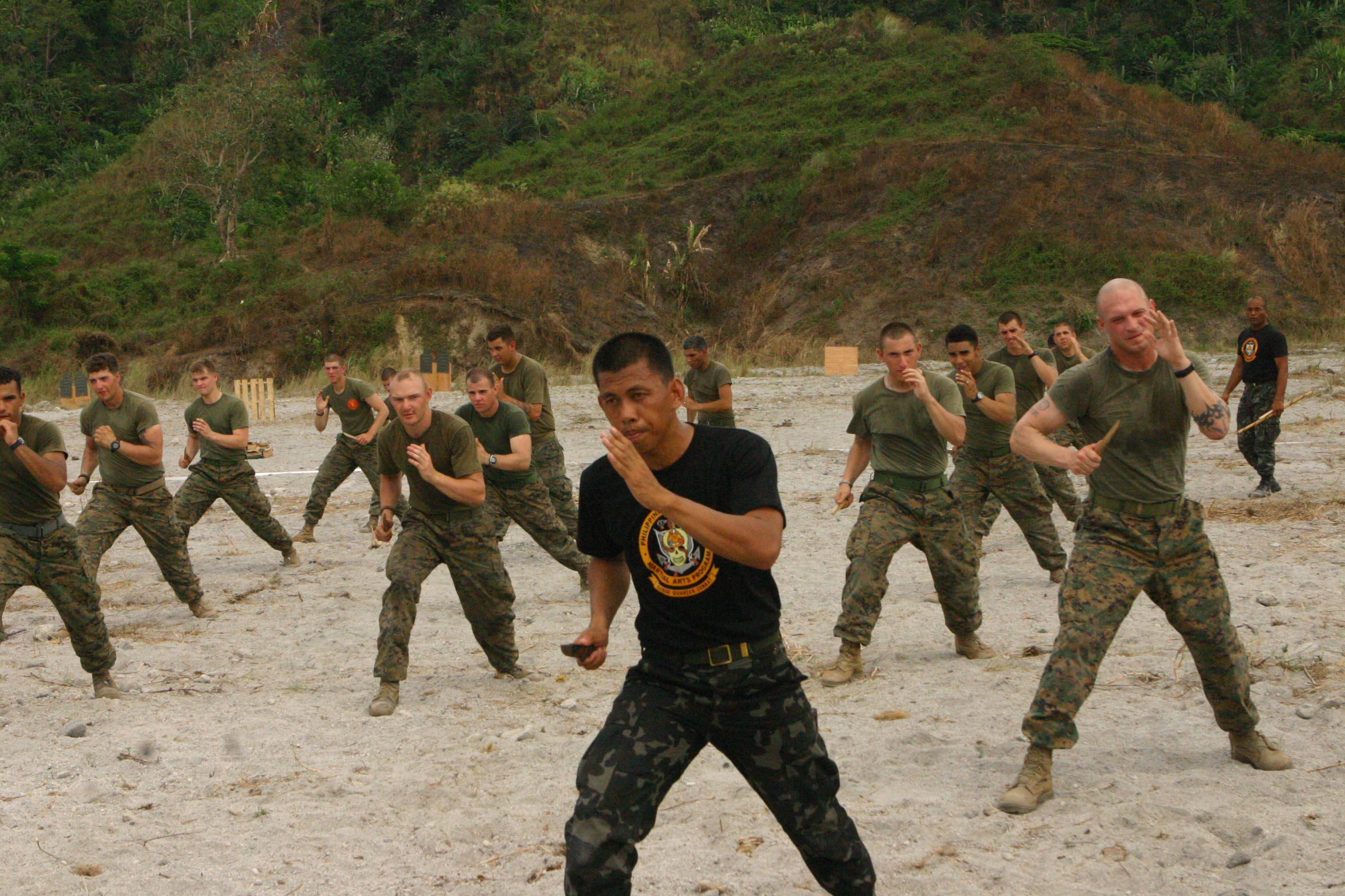 U.S. Marines with Battalion Landing Team 2nd Battalion, 7th Marines (BLT 2/7), 31st Marine Expeditionary Unit (MEU), participated in a class hosted by Philippine Marine Corps instructors during Philippine Martial Arts Program session, March 13. The martial arts class was part of bilateral training being conducted during exercise Balikatan 2010 (BK ’10). (Official Marine Corps photo by Cpl. Michael A. Bianco)